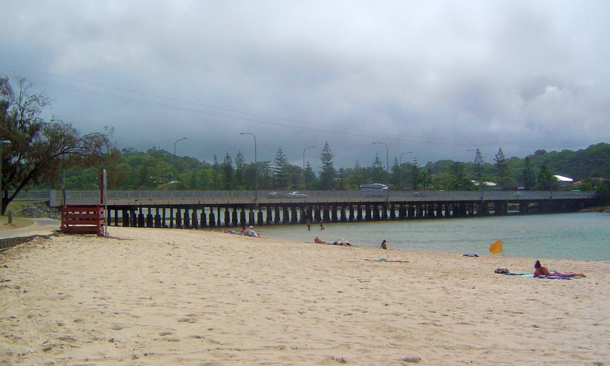 Photo of the Gold Coast Highway over Tallebudgera Creek at Palm Beach